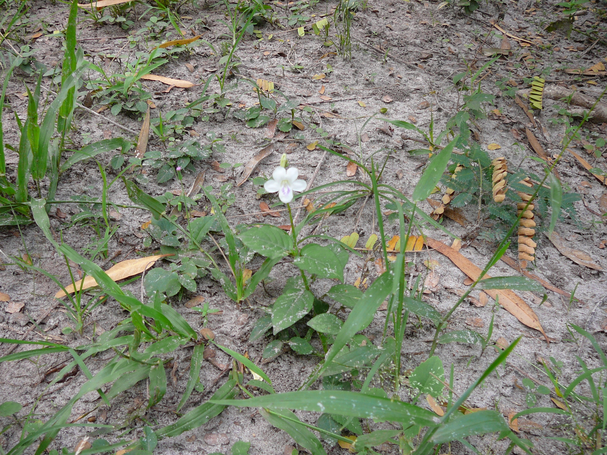 Asystasia gangeticaIdentification by this website